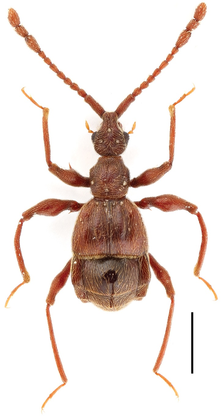 Male habitus of Pselaphodes longilobus. Scale: 1.0 mm.